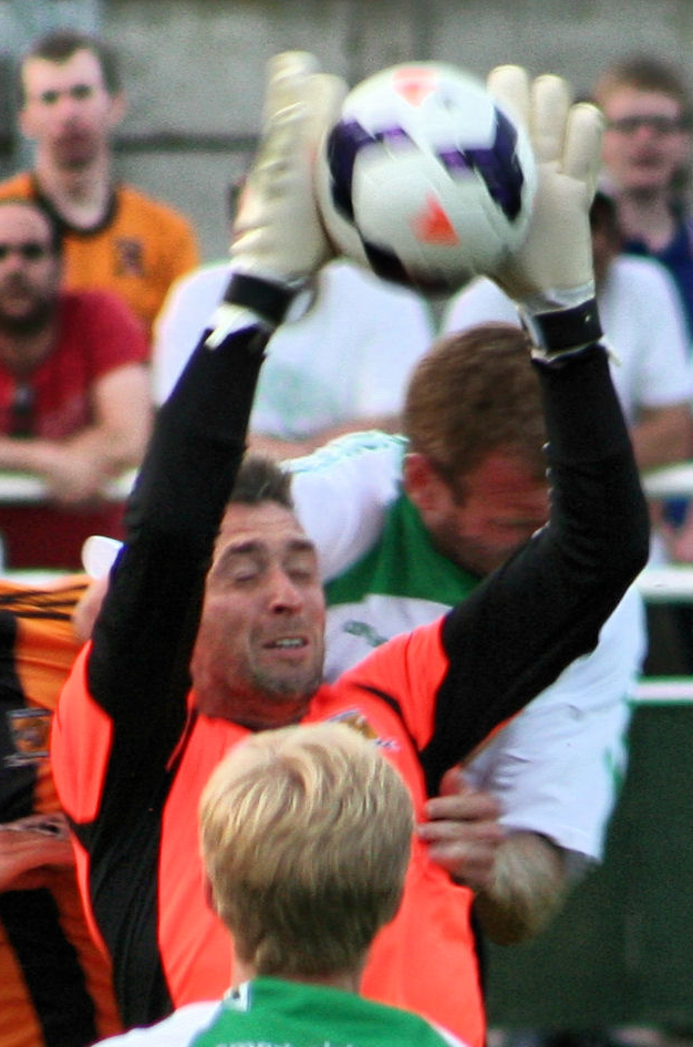 Allan McGregor. Image cropped from original at flickr.